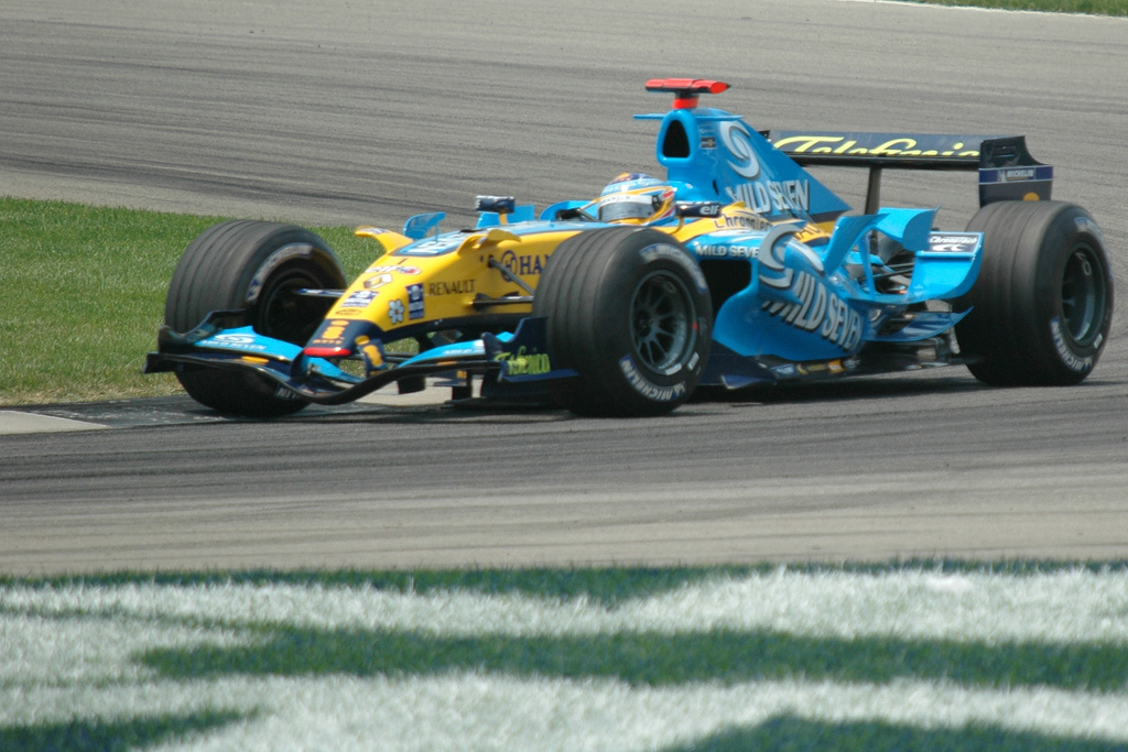 Fernando Alonso driving for Renault F1 at the 2006 United States Grand Prix.